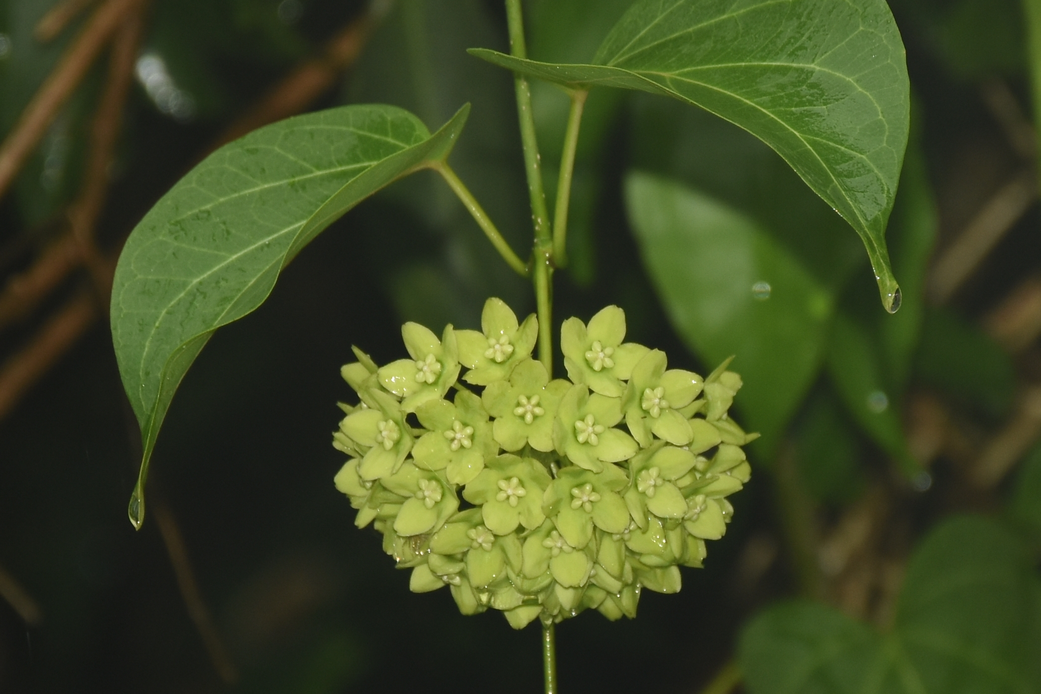 Dregea volubilis is a species of plant in the Apocynaceae family that is native to India